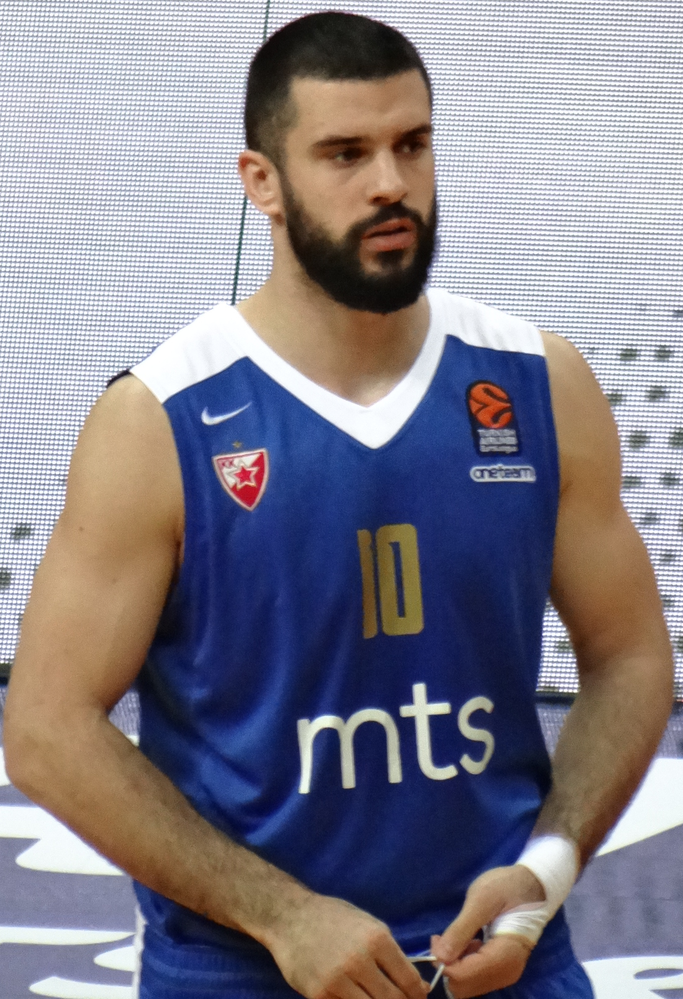 Branko Lazić 10 KK Crvena zvezda 20171219